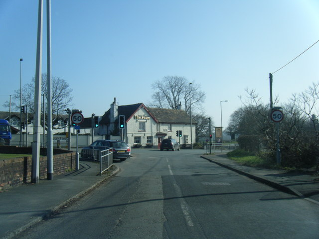 Chapel Lane nears the A556 at Bucklow Hill